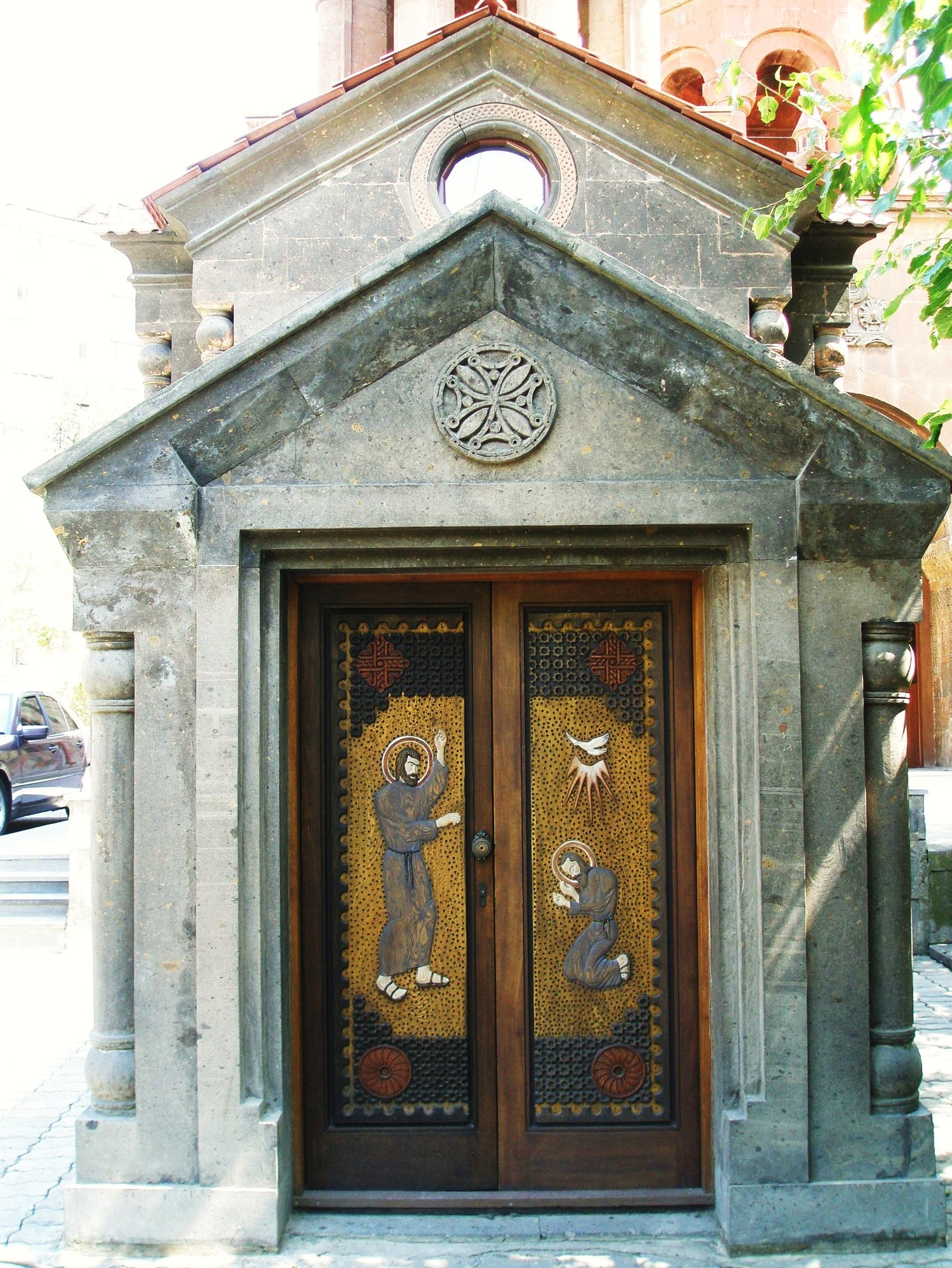 Doors leading to the underground shrine.